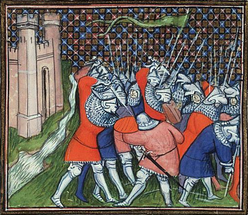 Jean Froissart, Chroniques (Vol. I): The battle of Nogent Place of origin, date: Paris, Virgil Master (illuminator); c. 1410 Material: Vellum, ff. 382, 385x288 (243x187) mm, 42 lines, littera cursiva, Binding: 18th-century brown leather; gilt; with coat of arms of Stadholder William V Decoration: 1 two-column miniature (170x180 mm); 29 column miniatures (115/65x95/80 mm); 1 historiated initial (45x50 mm); decorated initials with border decoration (ff. 1r, 24r, 36r, 62r, 74v, etc.) Provenance: Louis de Luxemburg, conn‚table de France (d. 1475; signature, erased); by descent to his granddaughter Françoise de Luxembourg and her husband Philip of Cleves (d. 1528; coat of arms with label, over erasure; signature); purchased in 1531 from Philip's estate by HenriIII, Count of Nassau (d. 1538); by descent to the Princes of Orange-Nassau, the later Stadholders, at The Hague; carried off in 1795 to Paris by the French and restituted to the Koninklijke Bibliotheek in 1816